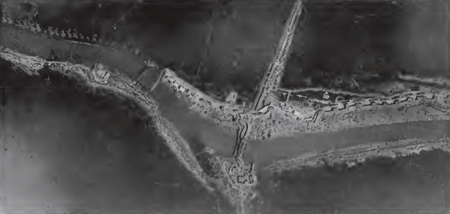 Reconnaissance photograph, Drei Grachten,Flanders, 1917